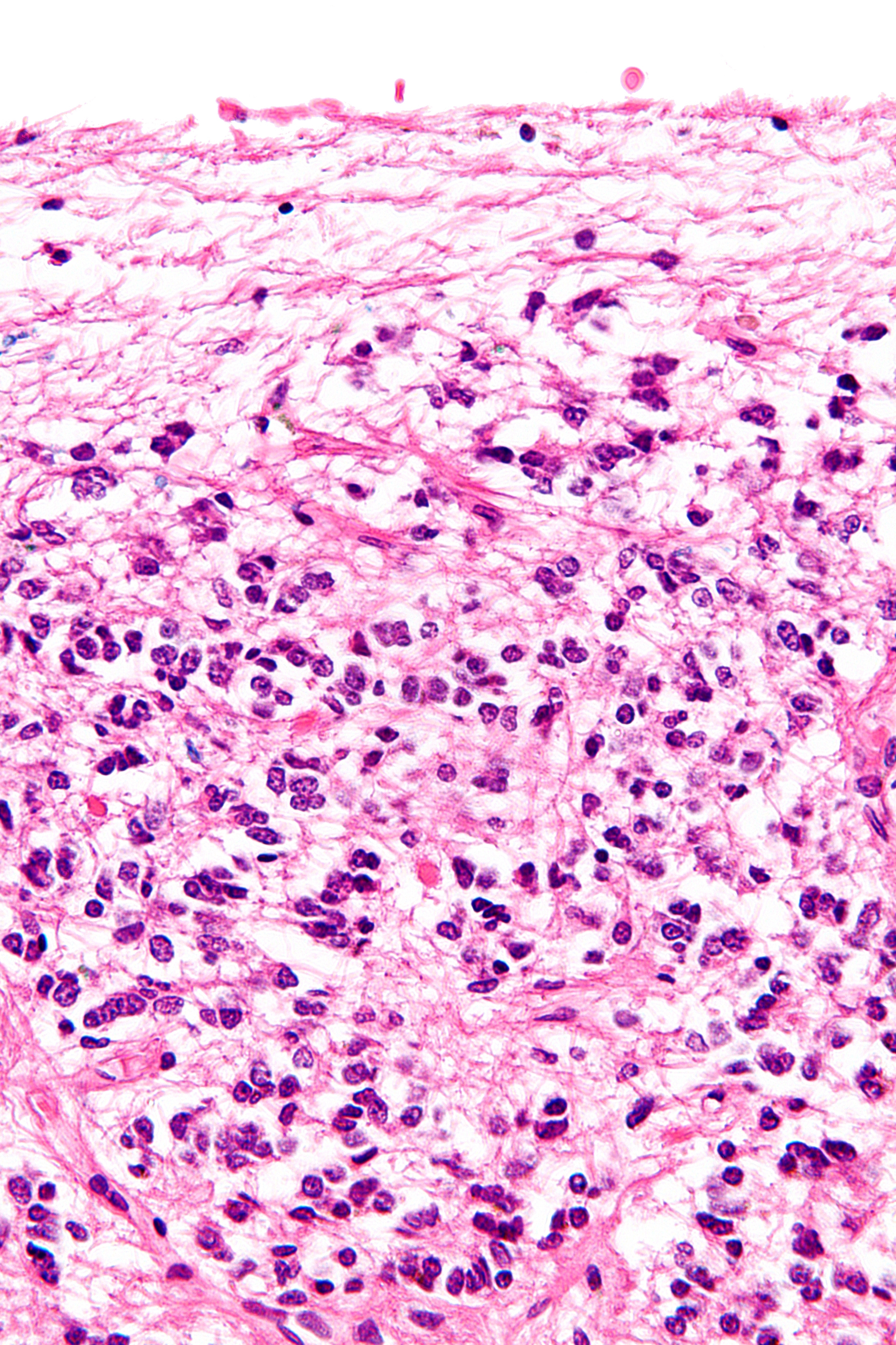 Very high magnification micrograph of a normal pineal gland. H&E stain. The pineal gland is very cellular and can be mistaken for a neoplasm.[1] Related images Low mag. Intermed. mag. High mag. References ↑ Kleinschmidt-DeMasters BK, Prayson RA (November 2006). "An algorithmic approach to the brain biopsy--part I". Arch. Pathol. Lab. Med. 130 (11): 1630–8. PMID 17076524.